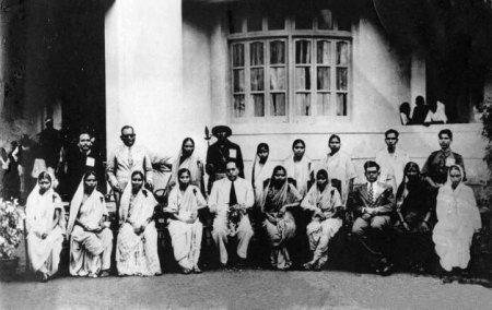 Dr Babasaheb Ambedkar in a group photograph with the female activists of 'Ambedkarite Movement'